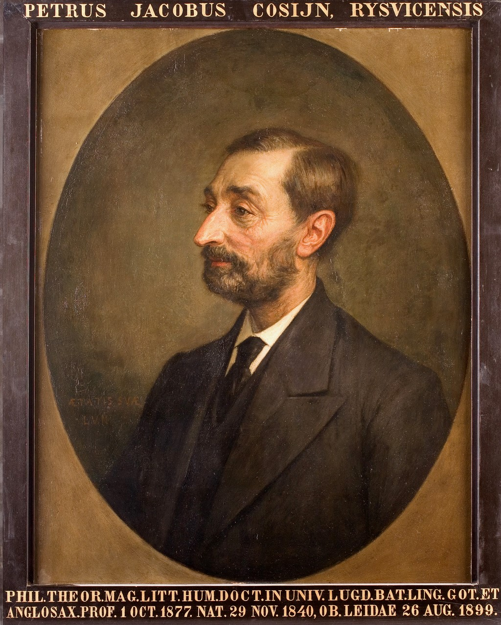 Petrus Jacobus Cosijn (1840-1899), professor Old-German and English in Leiden